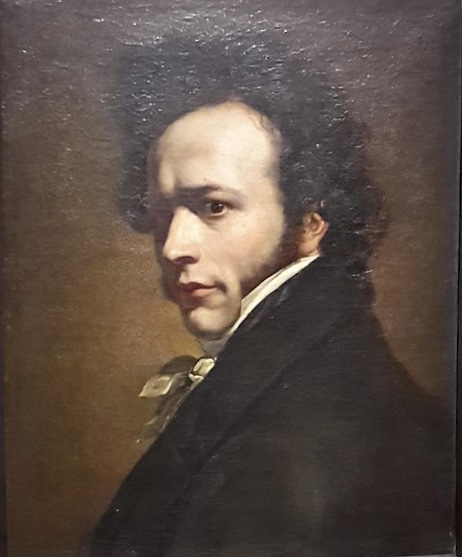 This self portrait of painter Giovanni Battista Biscarra (mid-19th Century, Italy) is presently displayed in the Gallery of Modern Art in Milan, Italy